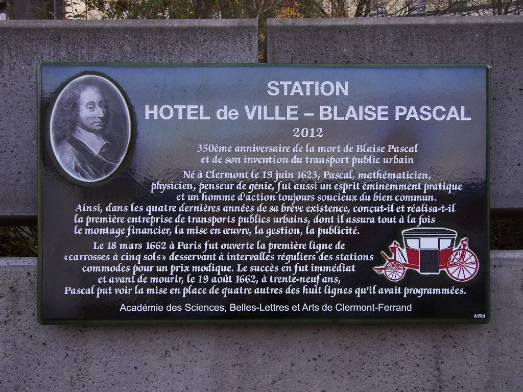 commemorative placque of Blaise Pascal's invention of the urban public transport in Clermont Ferrand , France